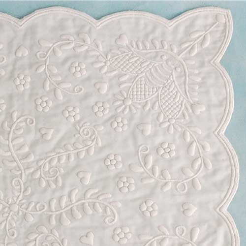 boutis.jpg